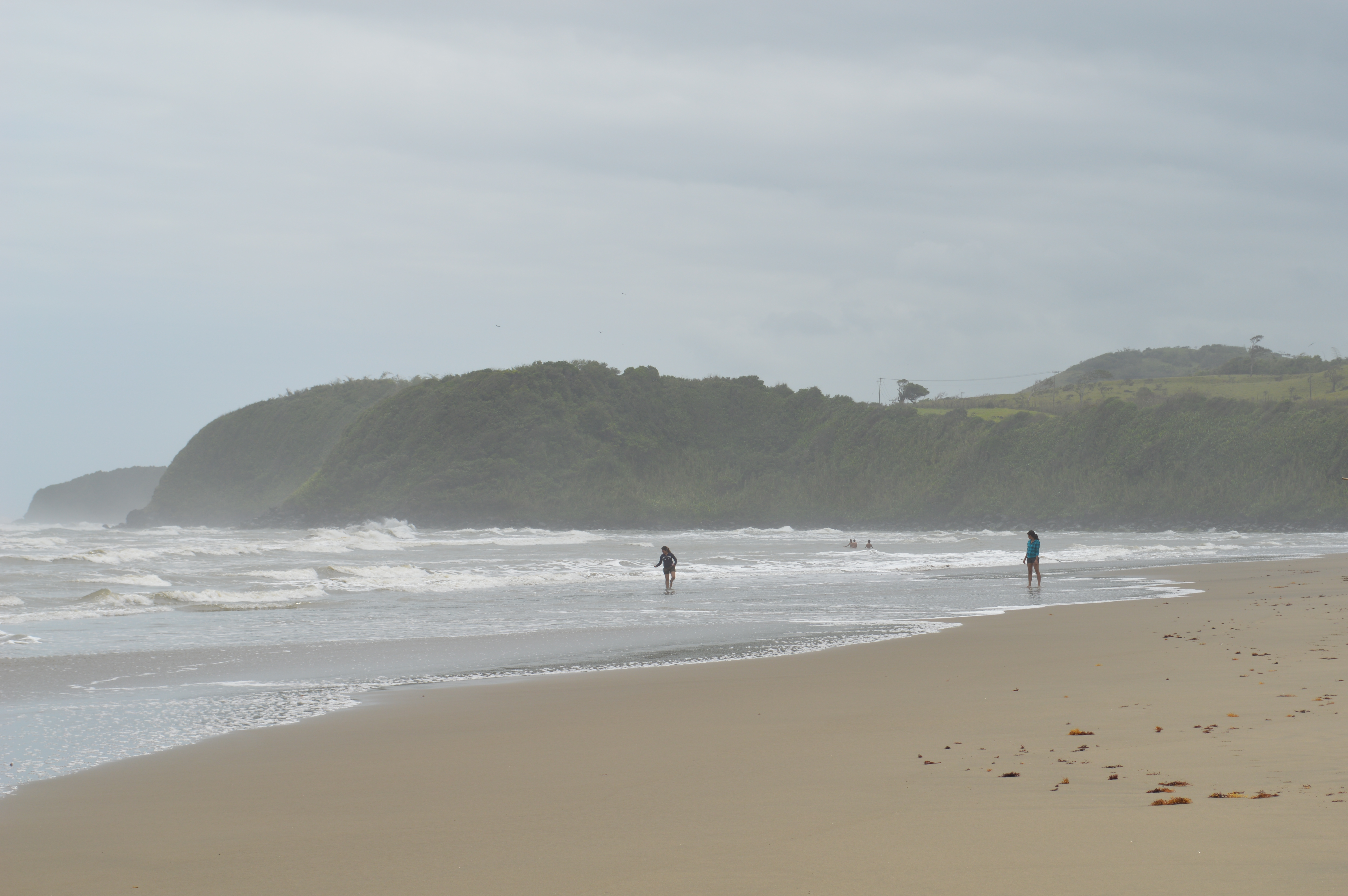 View of the beach at Barra de Sontecomapan, Catemaco, Mexico